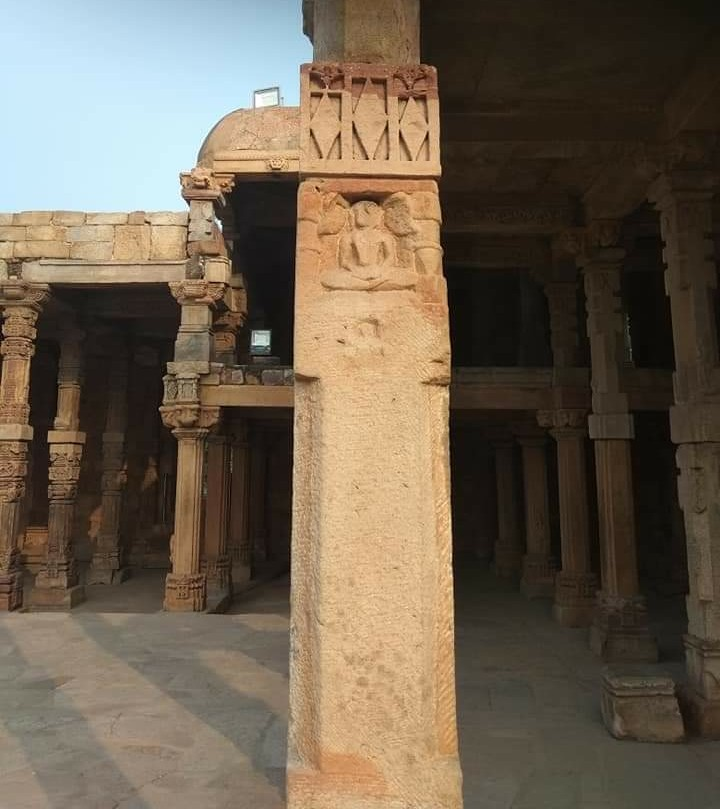 The picture depicts a carving of Jain Tirthankar at the Twenty seven Jain temple complex ruins near Qutub Minar.